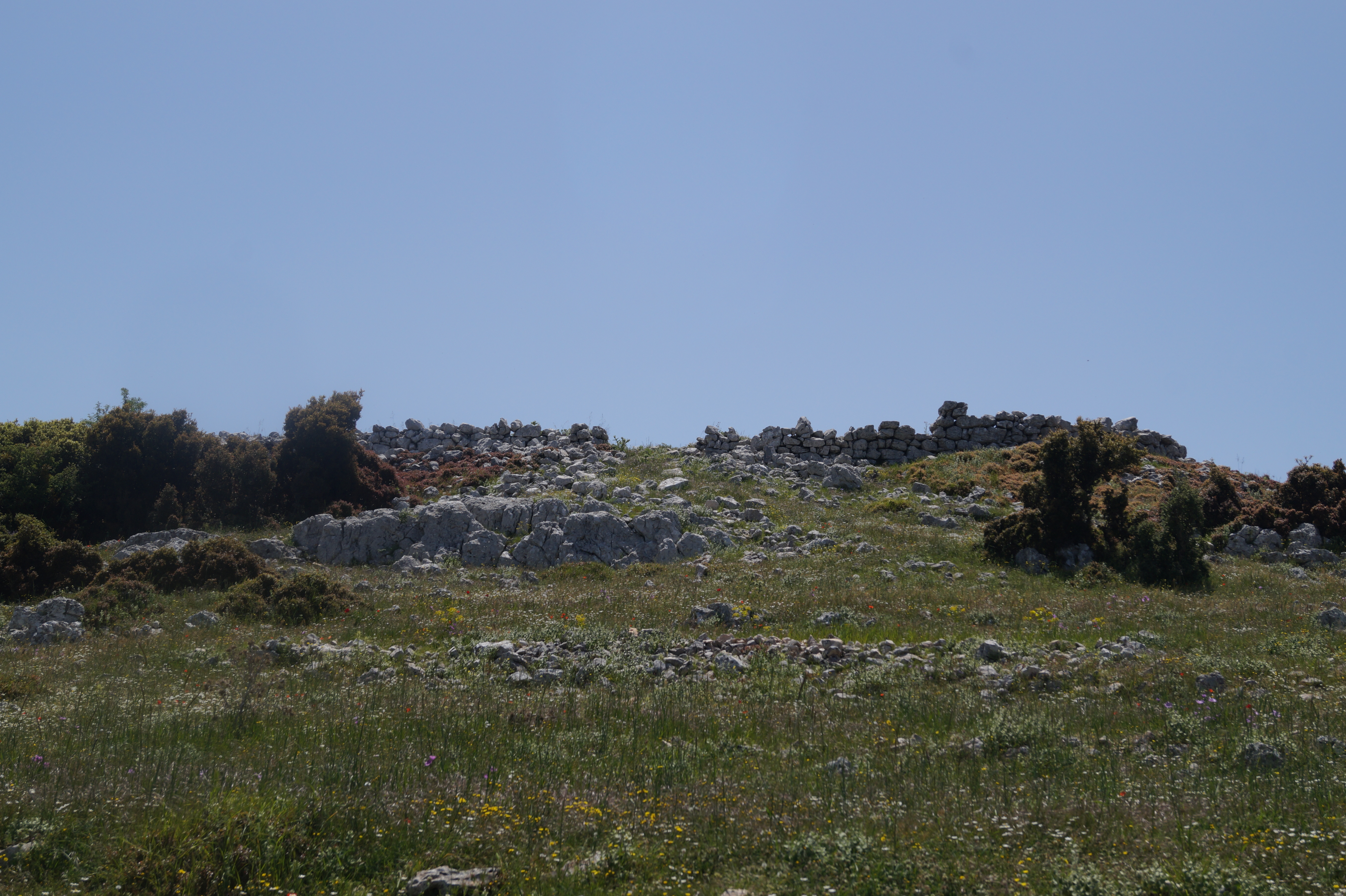 Arachneo, Argolis, Greece: Medieval fortification Gyclos on mount Skounthi (Arachneo). View from north on the gate.